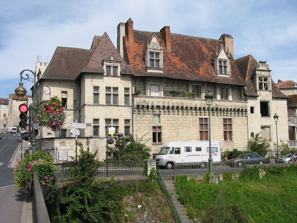 Houses in Perigueux (South Western France) on the bank of the river Isle